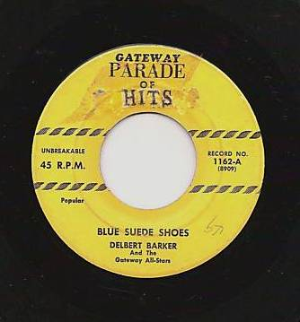 Blue Suede Shoes by Delbert Barker, Gateway 1956. Original recorded by Carl Perkins. Note that the label shows "Gateway Parade of Hits" and has a yellow appearance, but carries the same record number as the red-colored Gateway Top Tune single.